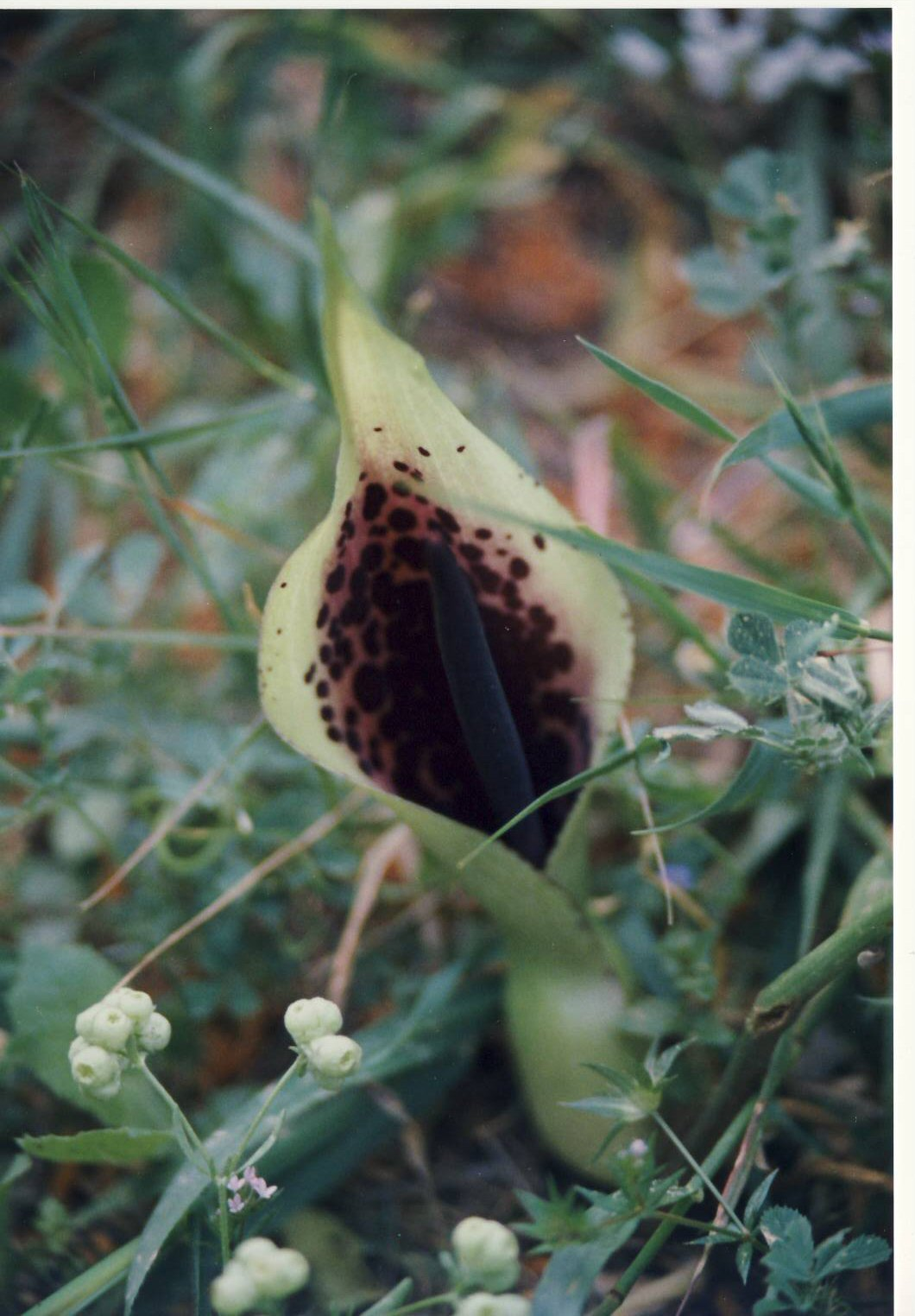 Arum dioscoridis לוף מנומר - צולם בכרמל